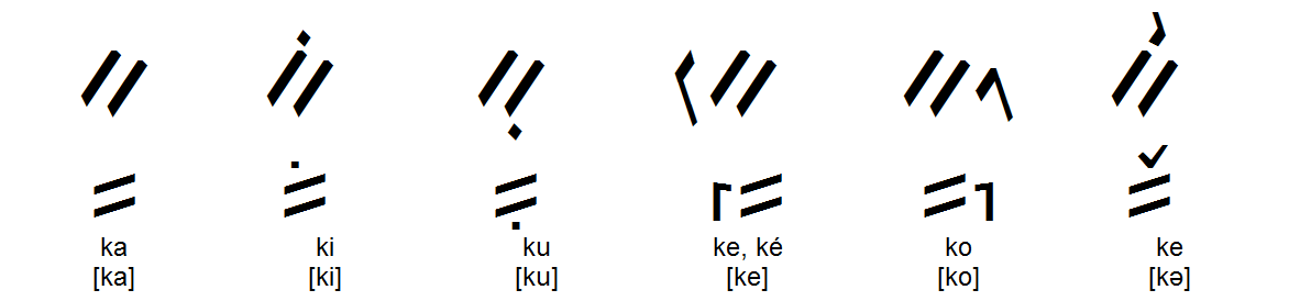 Vowels in the lontara script (buginese script). Symbols written with two TTF-fonts, Code2000 and Saweri. Lontara is an indic script that has been used historically for buginese, and a couple of related languages.